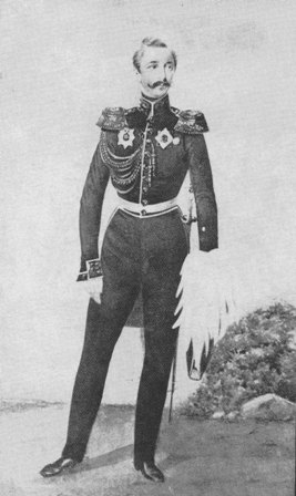 Prince Michael of Abkhazia (Hamid Bey).